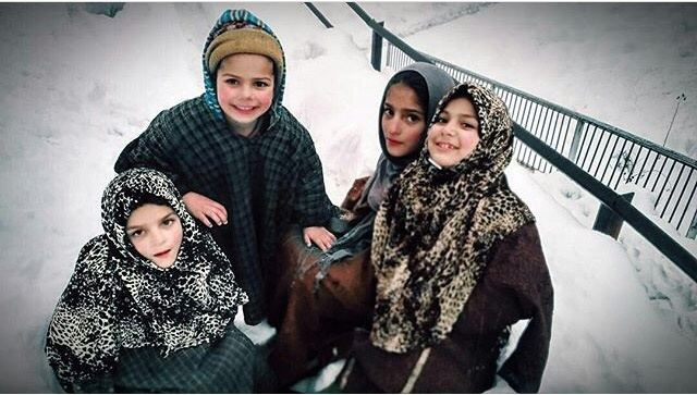 Ethnic Kashmiris